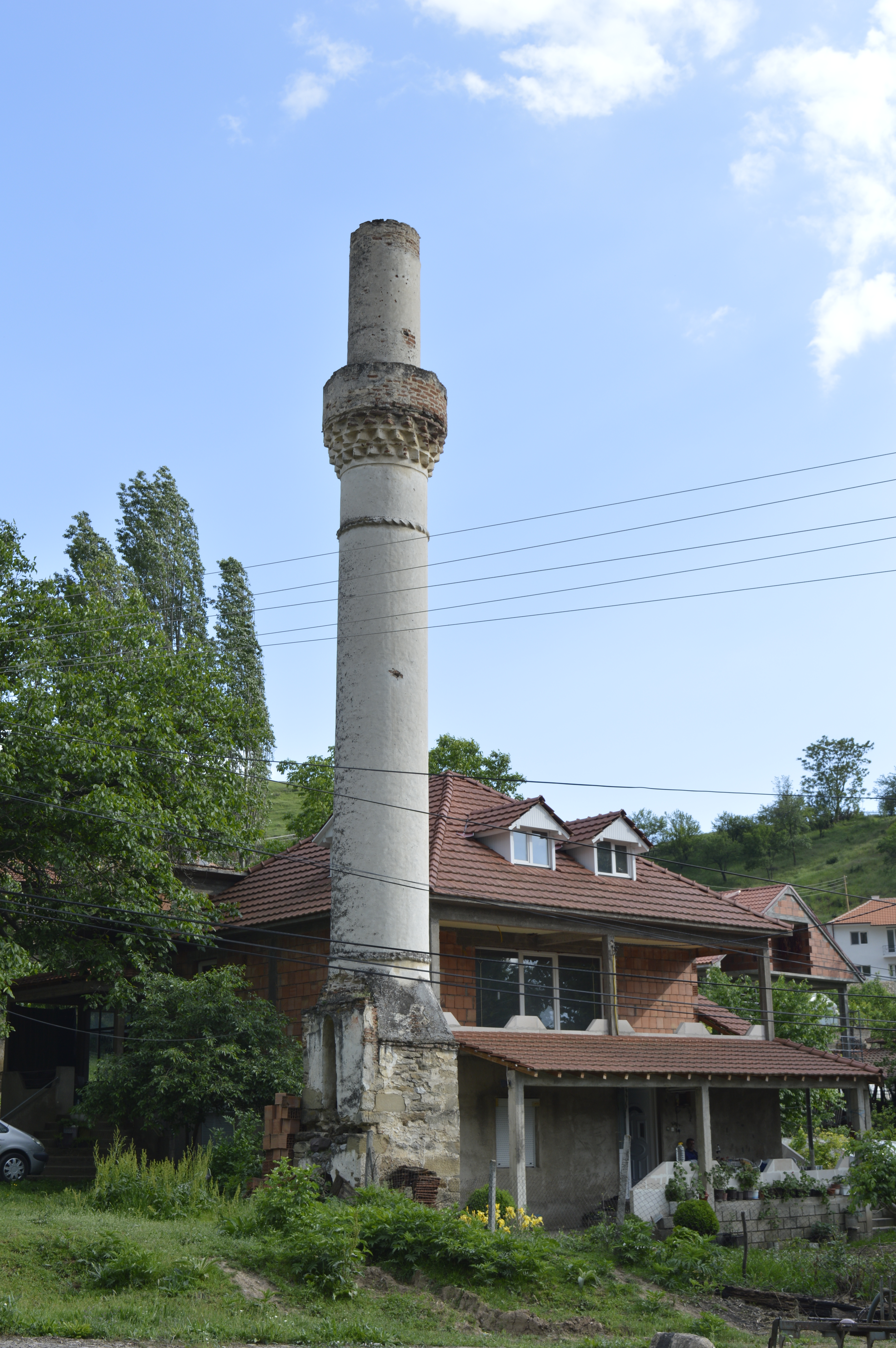 Ruined minaret in the village Dzvegor